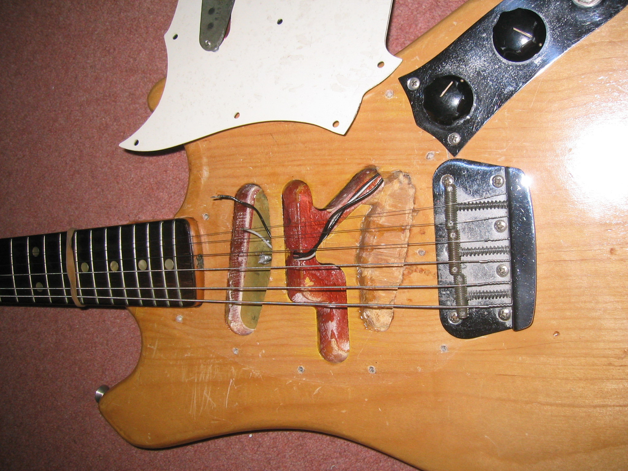 Fender Swinger interior view showing Fender Bass V pickup routing and original colour. Also shows damage caused by amateur customisation.